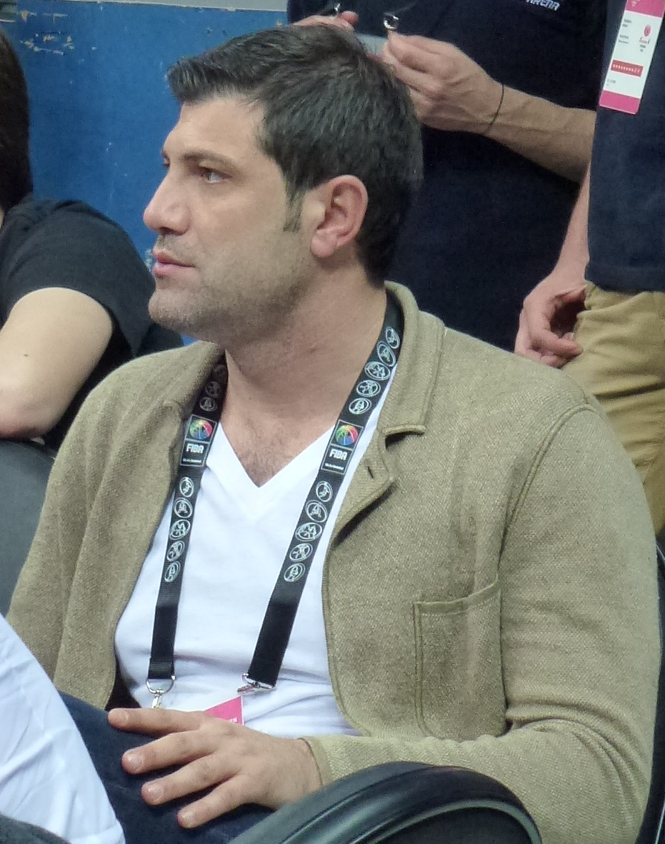 Ömer Onan at Fenerbahçe Women's Basketball - Nadezhda Orenburg 2015-16 EuroLeague Women semi final on 15 April 2016 in Ülker Sports Arena